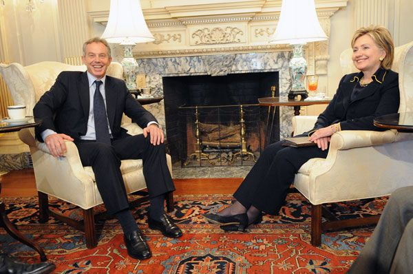 Secretary of State Hillary Clinton delivers remarks after meeting with Quartet Envoy Tony Blair in the Treaty Room at the State Department.